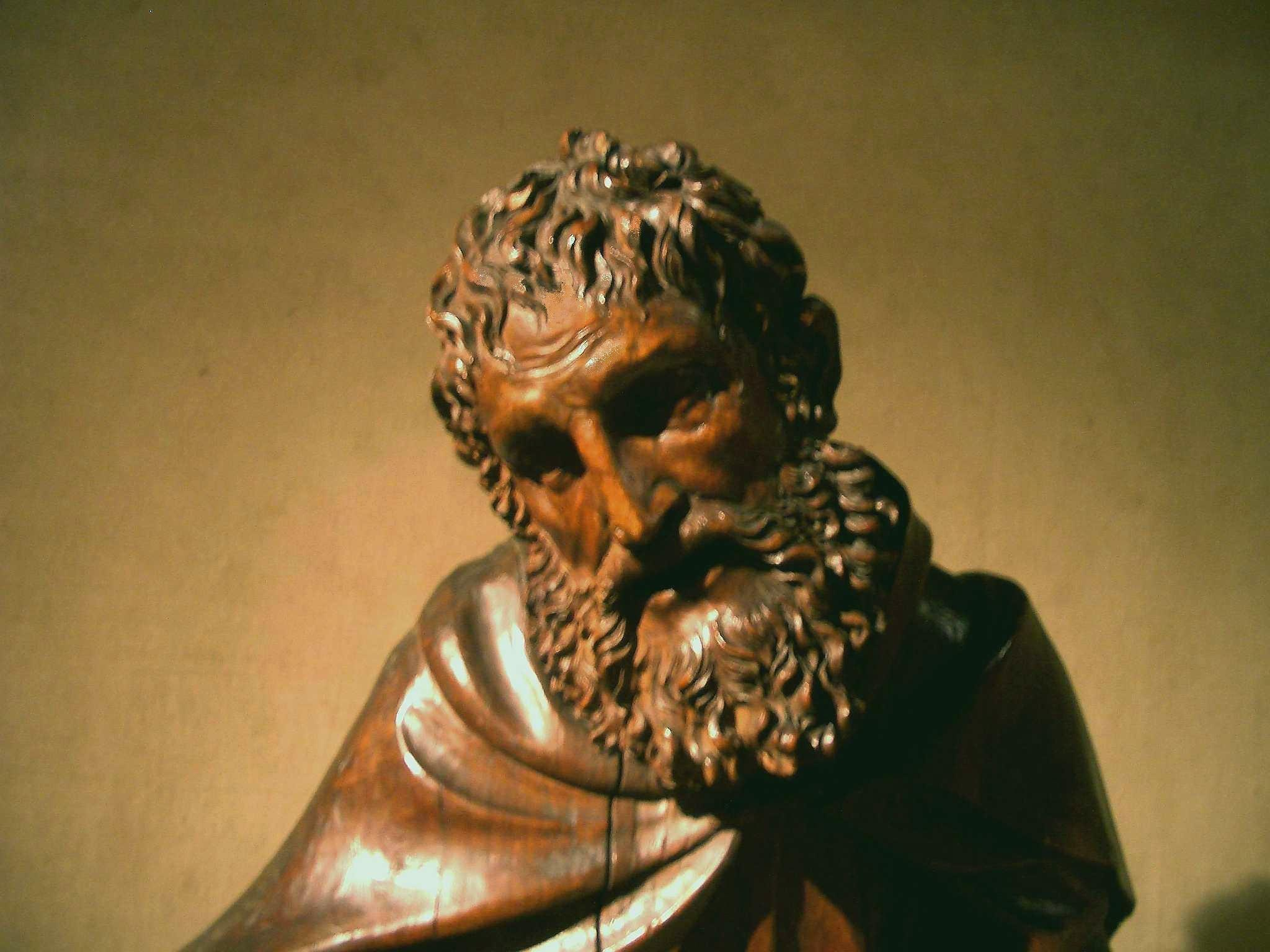 Giovanni Angelo Del Maino, "Statue of Nicodemus" (detail), wood, ca. 1518, Collections of applied arts, Castello Sforzesco, Milan, Italy.